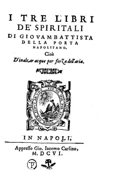 Title page